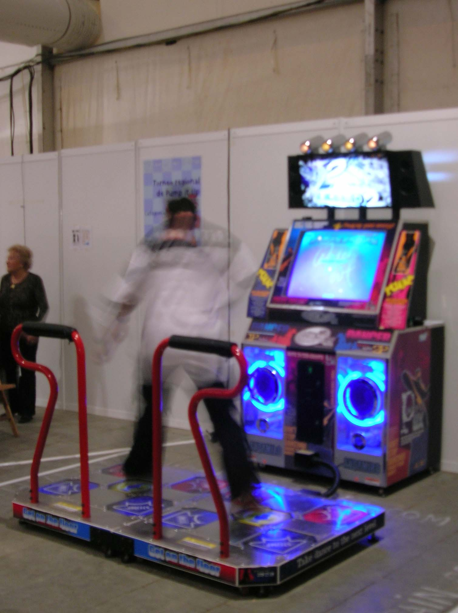 Pump it up championship in IV Getxo Comic Con.